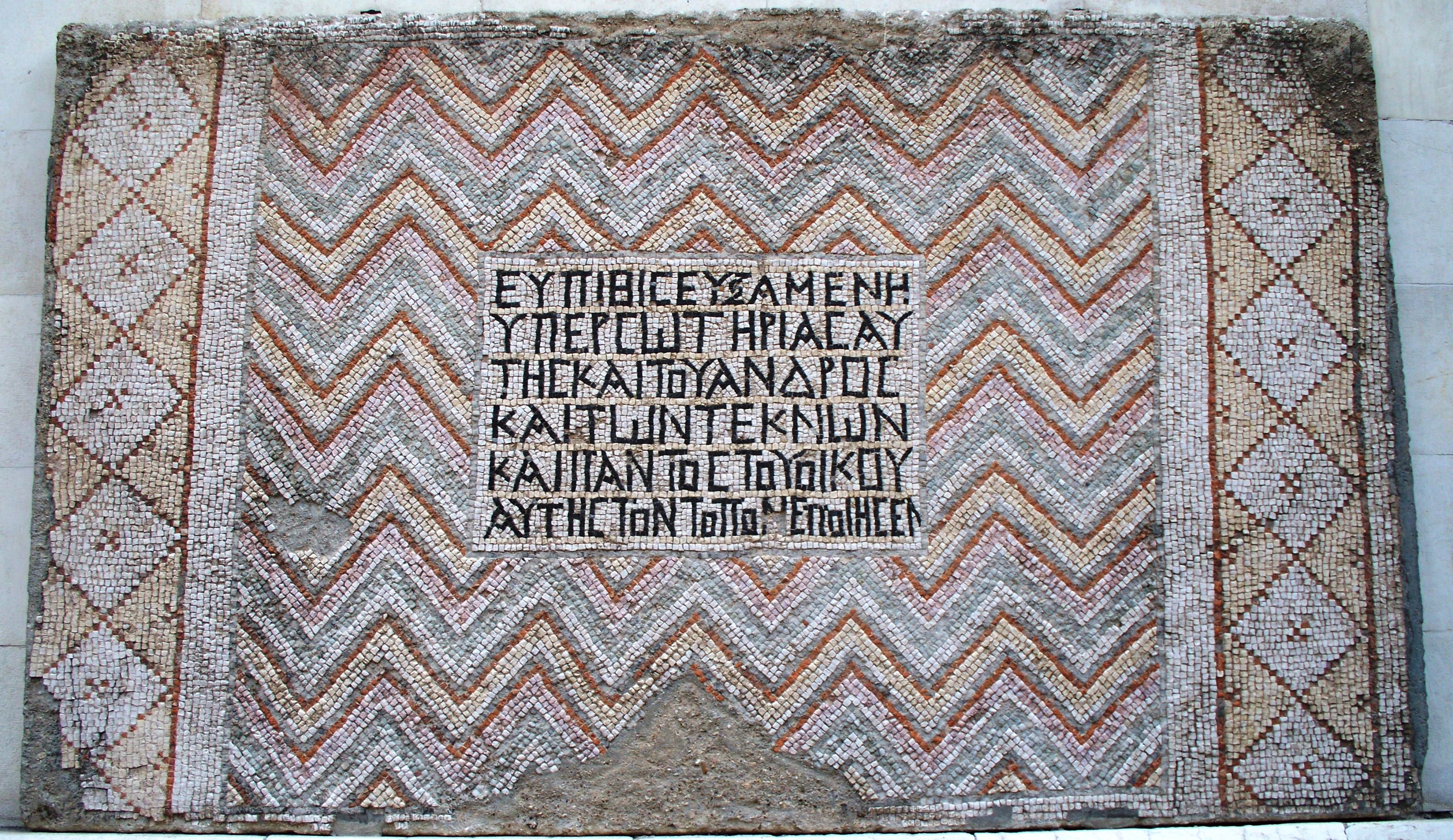 The National Museum of Damascus -- Greek mosaic description.